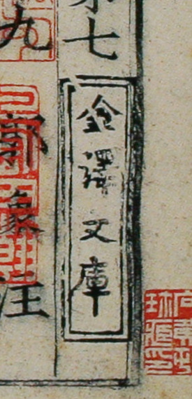 Seal of Kanesawa bunko on a chinese book the Zhuangzi printed in Southern Song Dynasty